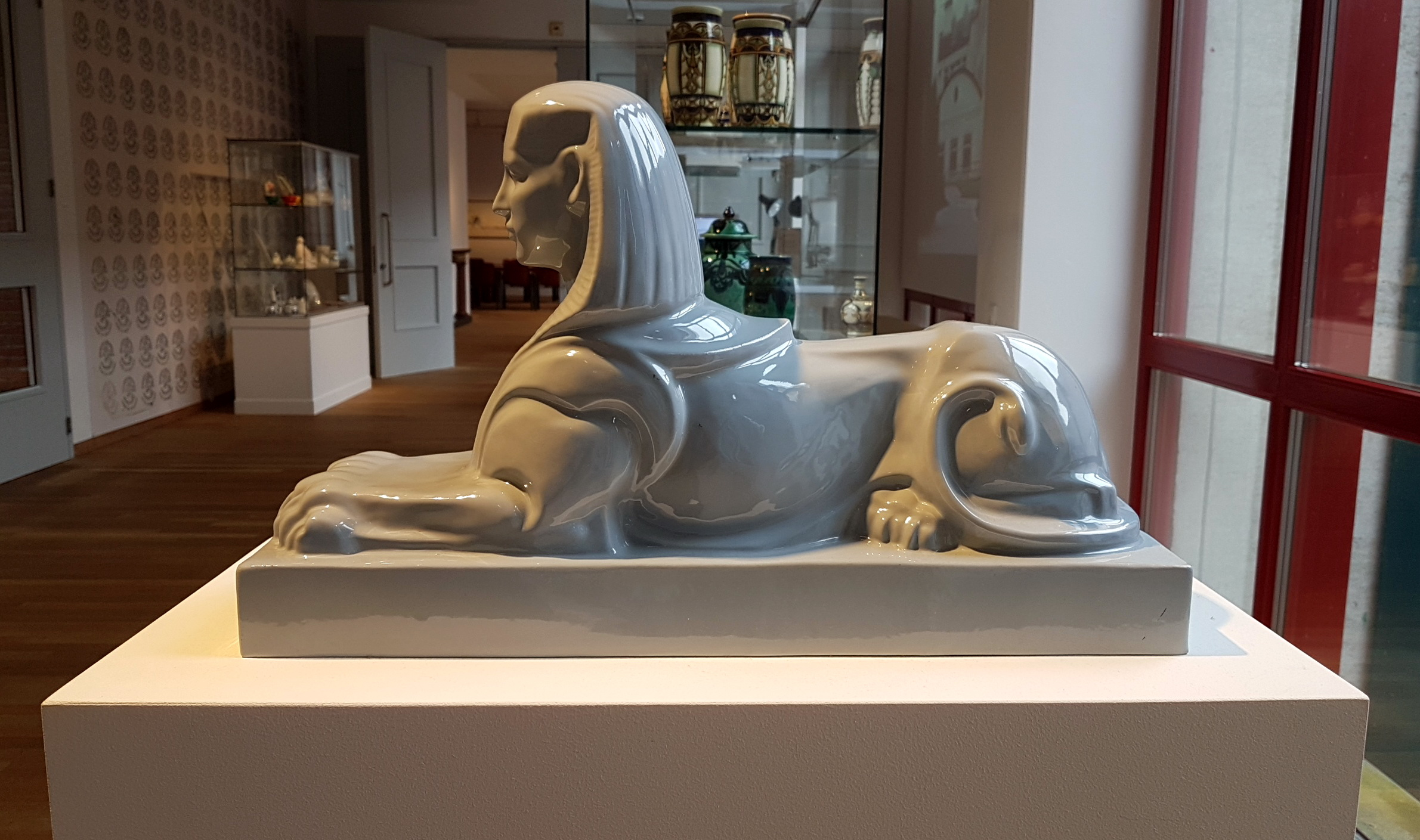 Ceramic sphinx (ca. 1930) designed by Charles Vos for De Sphinx N.V. in Maastricht, now in the collection of Maastricht pottery in the Bonnefantenmuseum in Maastricht, Netherlands.